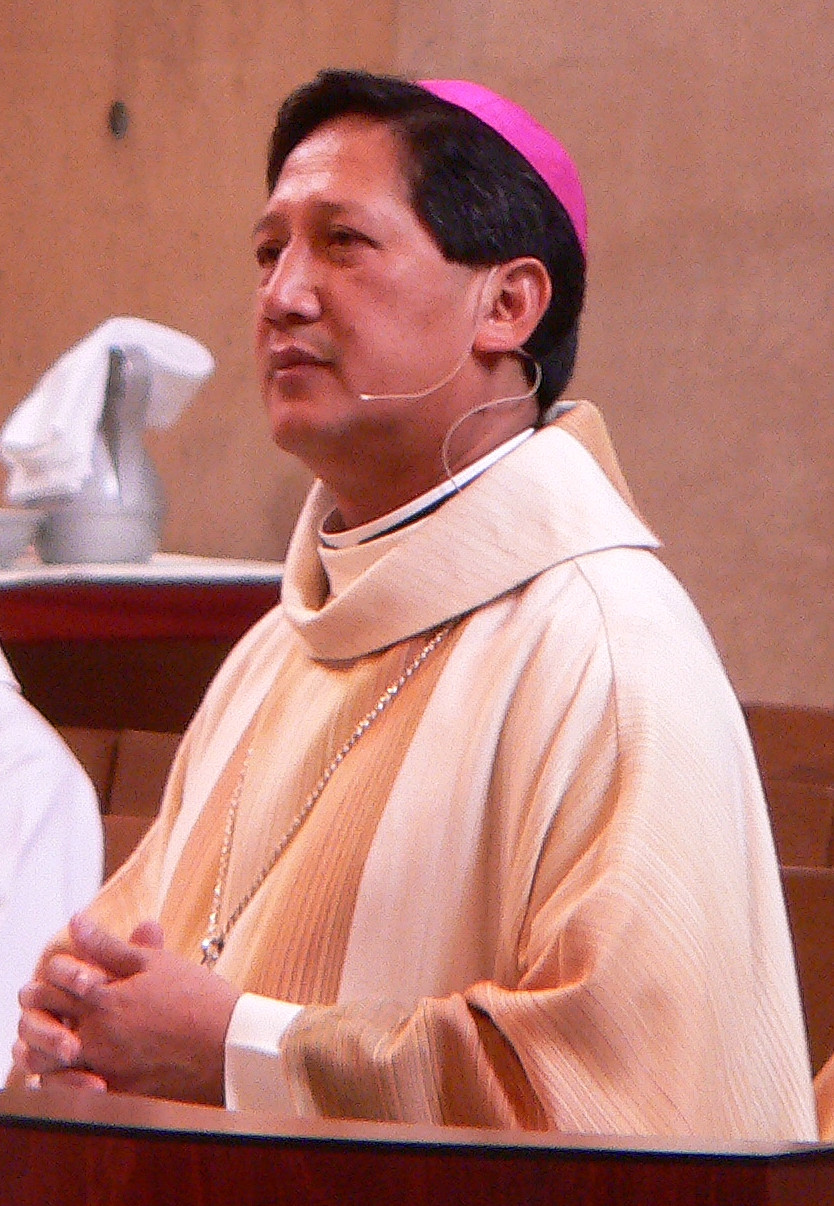 Bishop Solis - Los Angeles, California